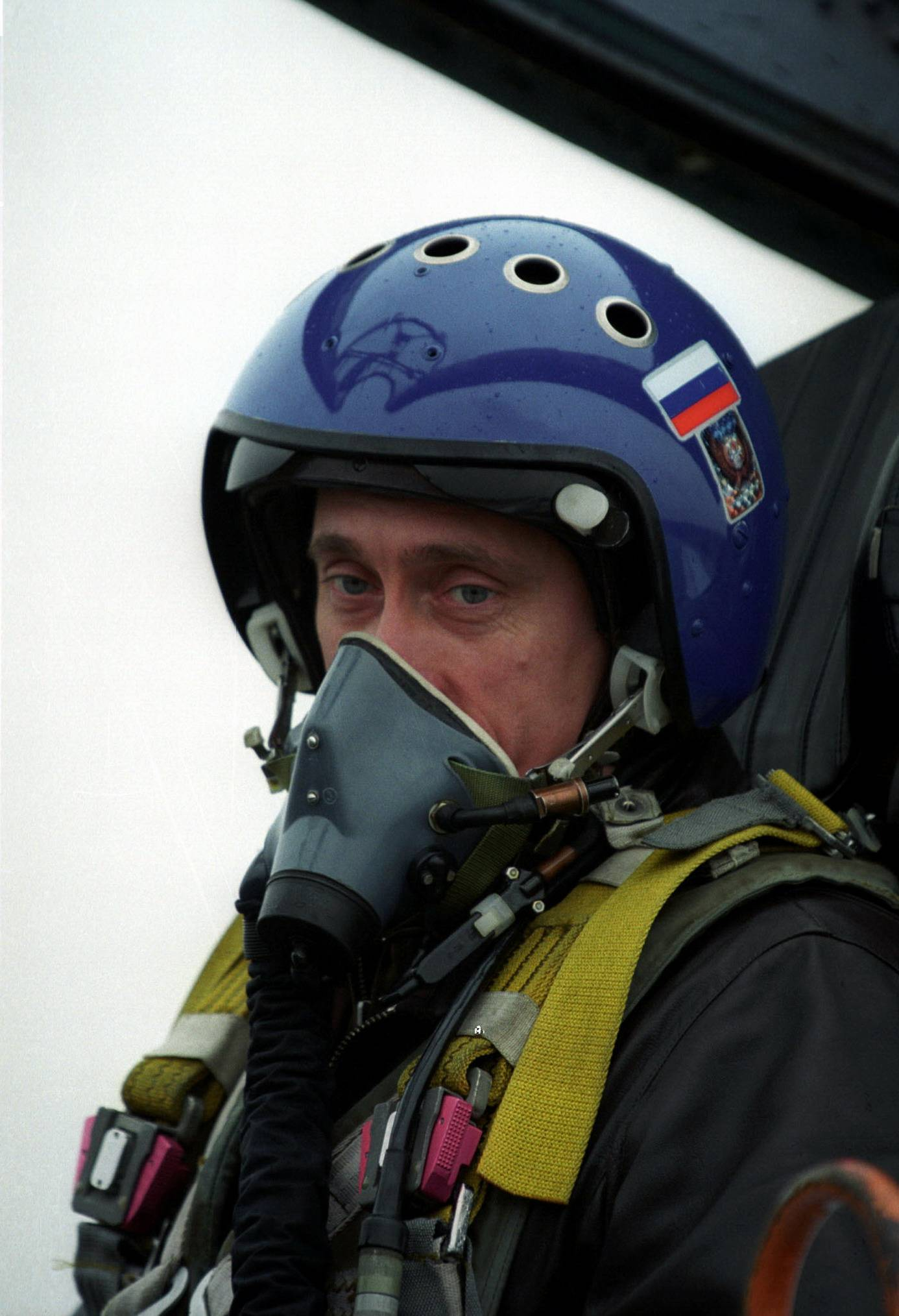 GROZNY. Acting President Vladimir Putin arrived in Grozny on a SU-27 fighter jet.